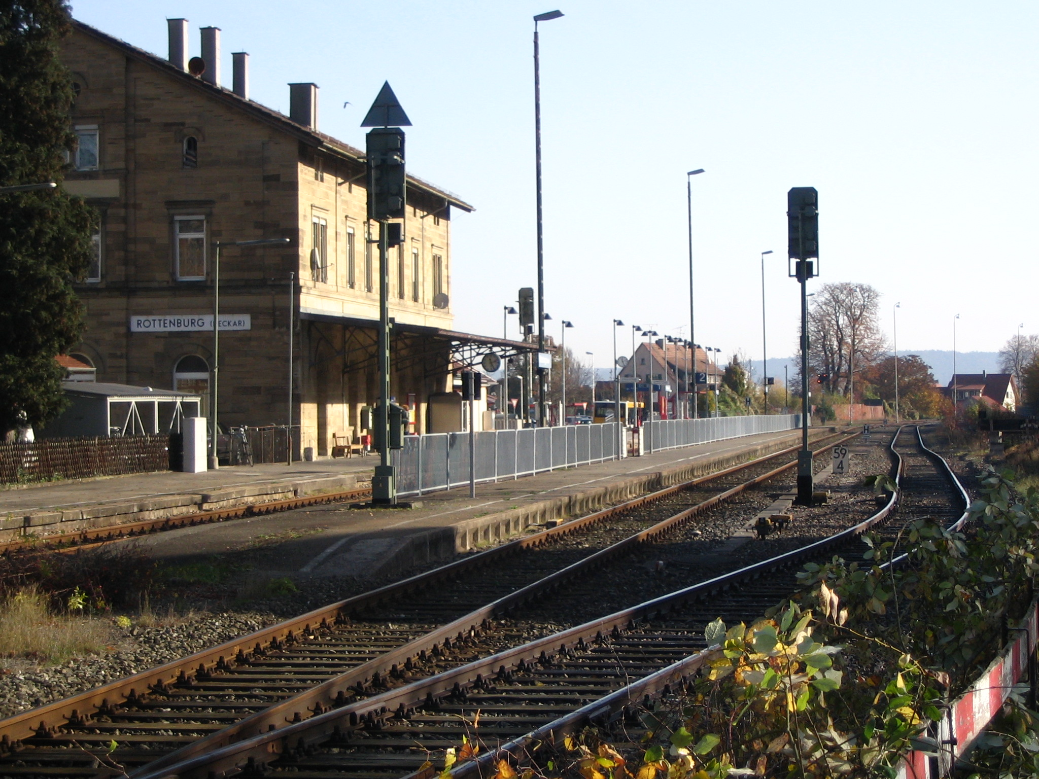 Rottenburg am Neckar, Germany Railway Station Photo taken by Matt314, October 2005.